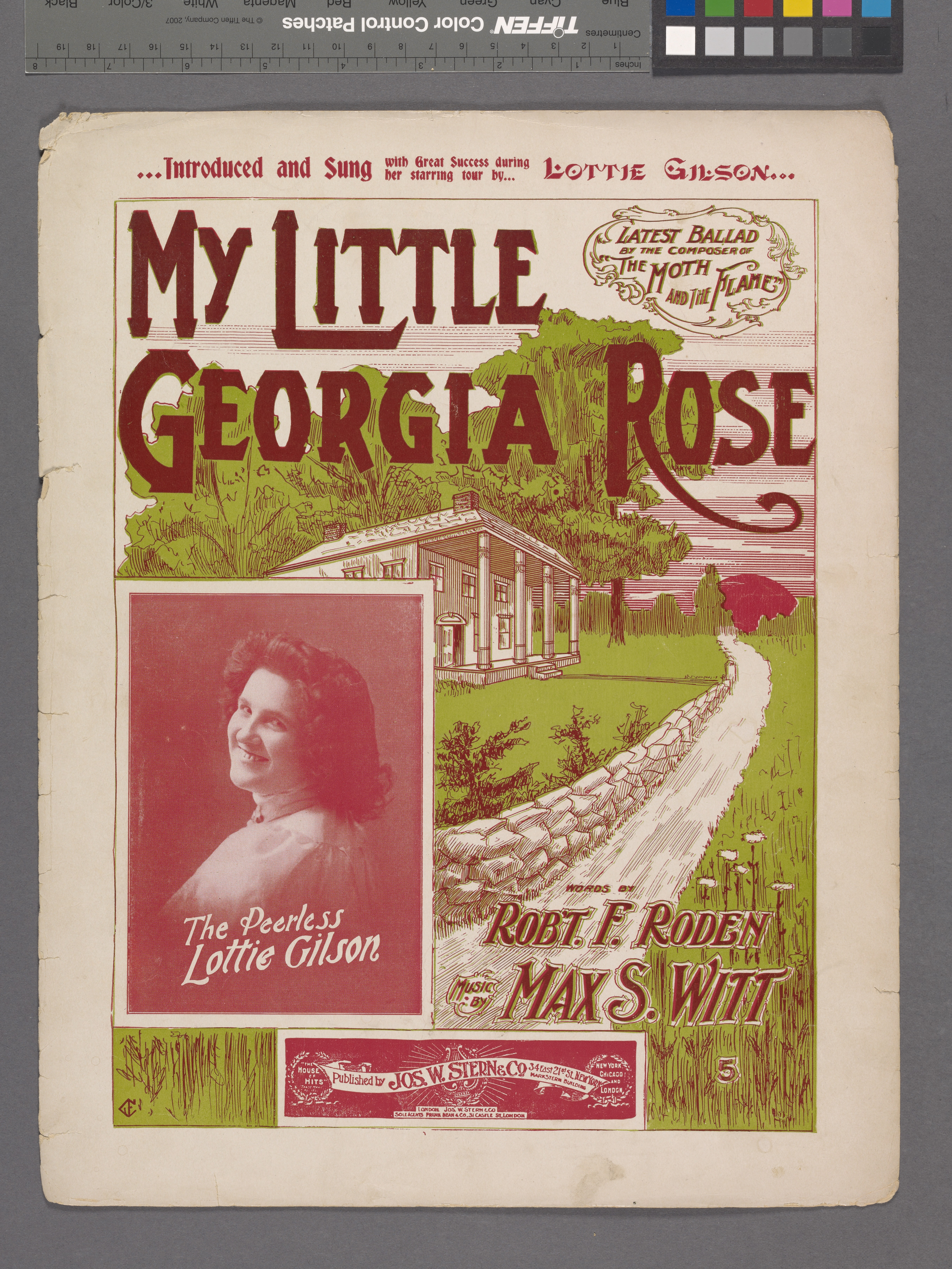 Cover design includes drawing of unpaved road with low stone wall leading to a setting sun; on the left is a stately house with columns. Cover design includes photograph of Lottie Gilson with the caption: The peerless Lottie Gilson. Dealer's stamp on first page of music: Lord & Co., The Modern Piano Dealers, Lawrence, Mass. Summary : The narrator, from the Northern United States, proposes to Rose from Georgia, who says yes; her father gives his consent to the marriage; after marriage, Rose's father's letters dwindle; on his deathbed he describes his sorry at having Rose leave but is happy for her. On cover: Introduced and sung with great success during her starring tour by Lottie Gilson. Statement of responsibility : words by Robert F. Roden ; music by Max. S. Witt.